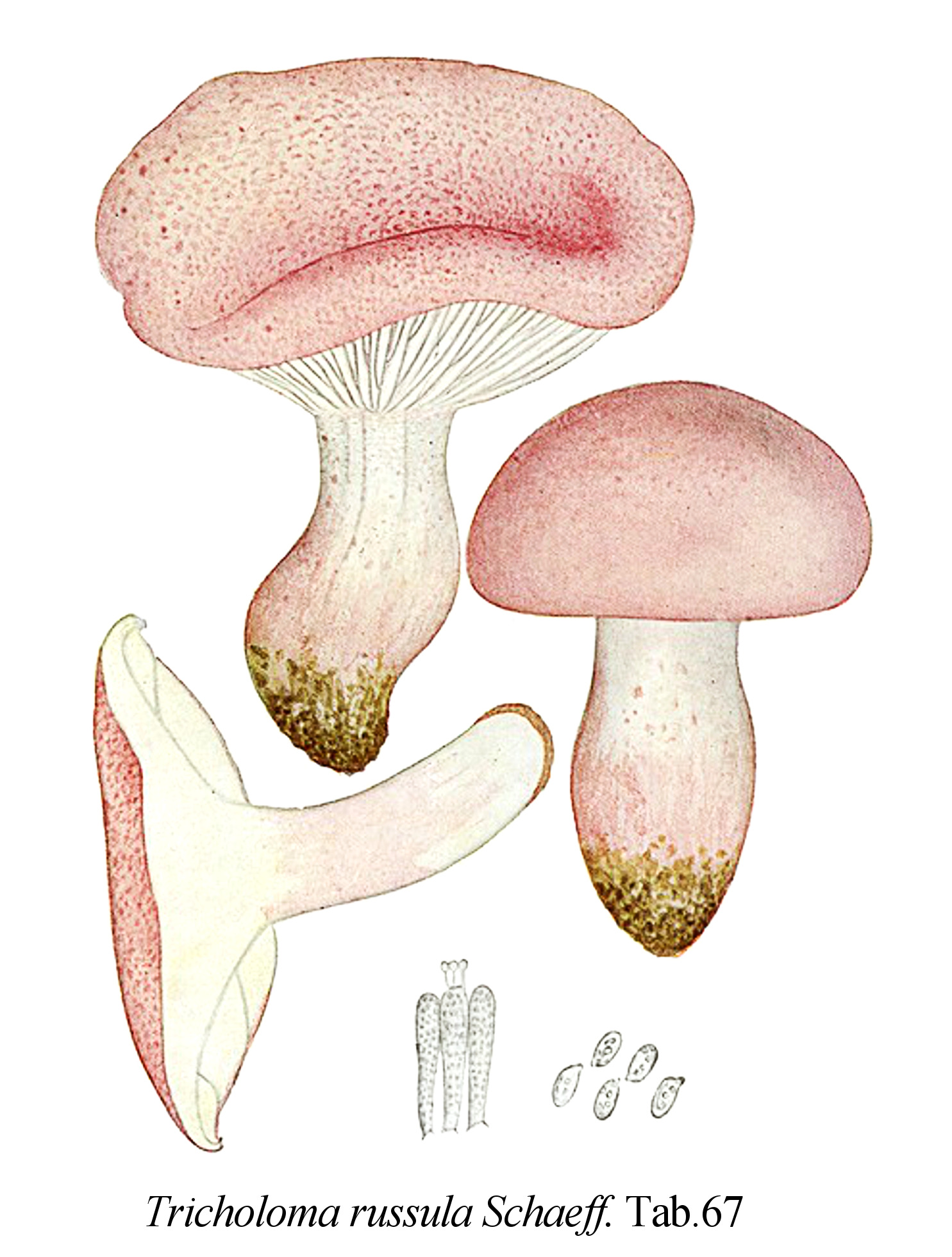 Giacomo Bresadola: Iconographia Mycologica Vol. 2 Tab. 67: Tricholoma russula (=Hygrophorus russula), Latin Description by the author.